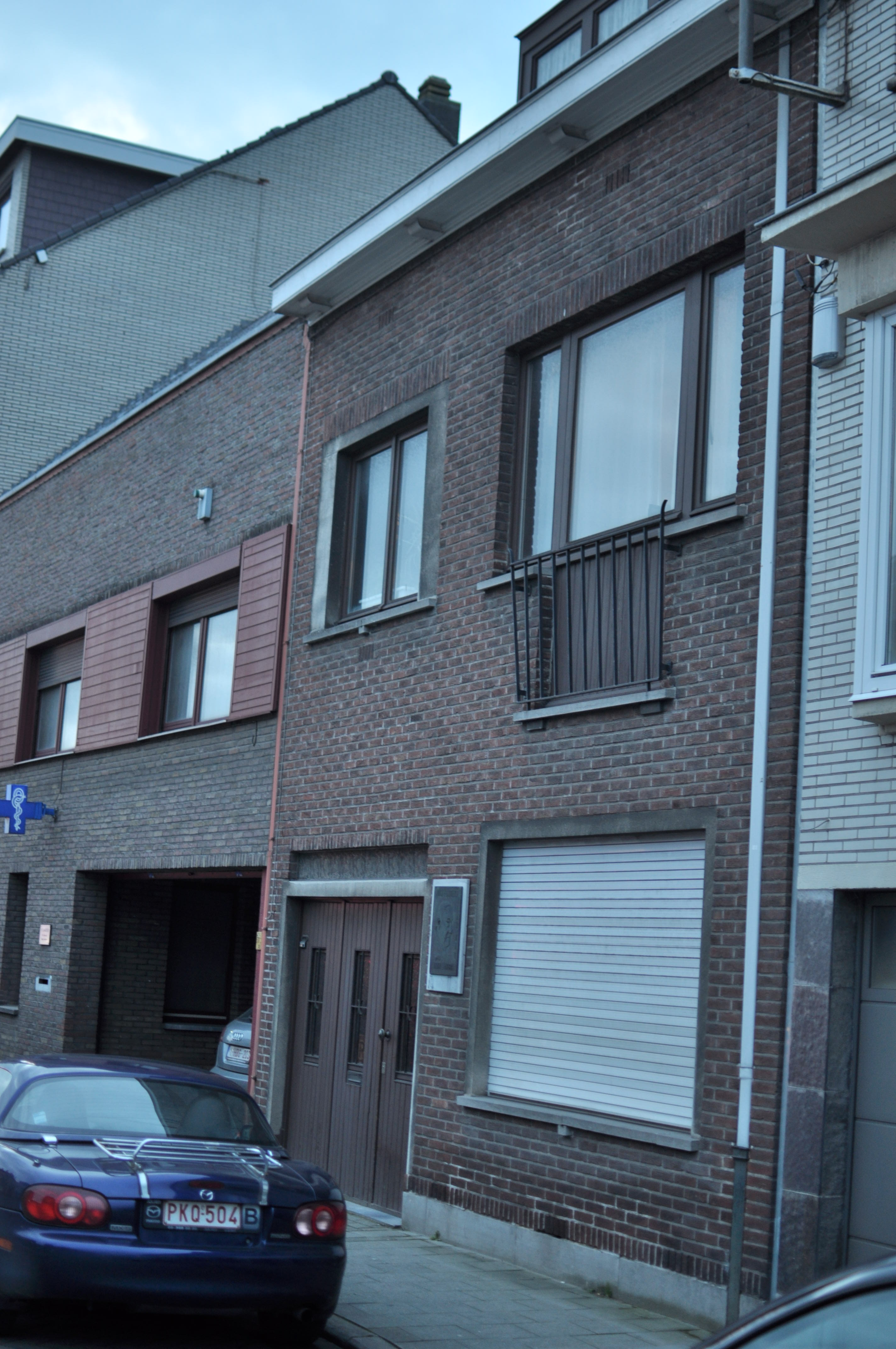 The house 563 on Rooigemlaan, Ghent, where Jean Ray died.